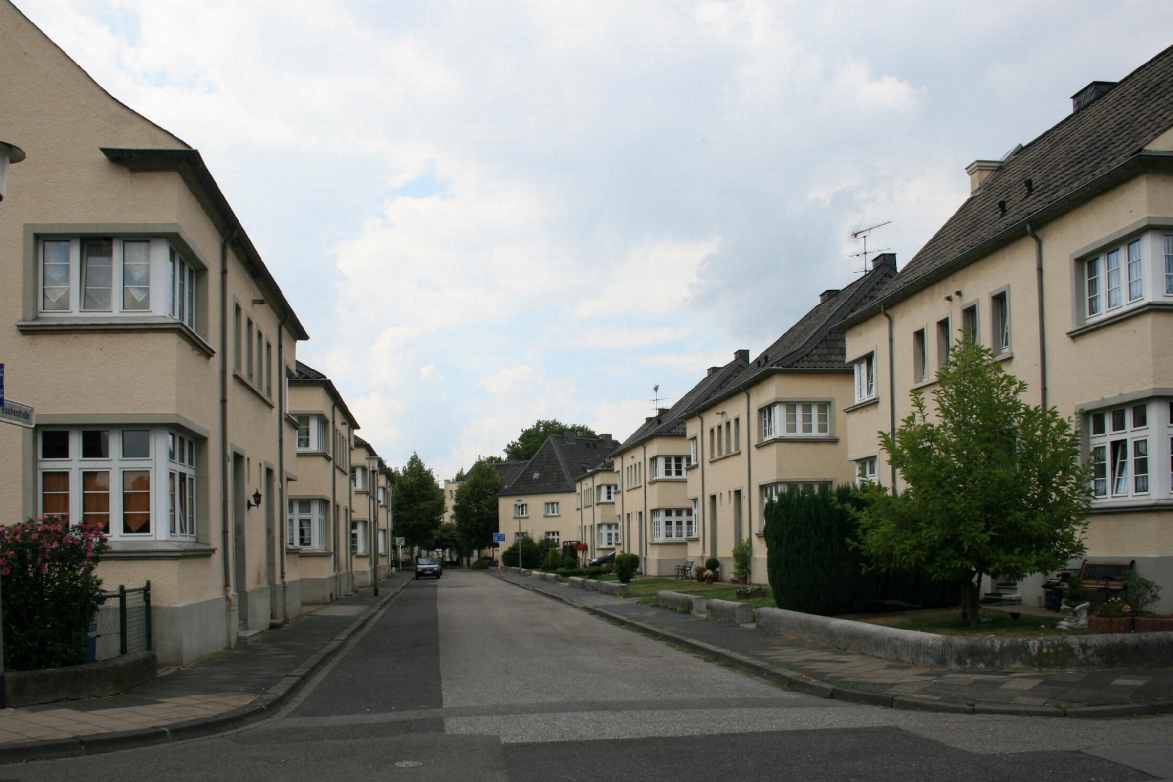 Cultural heritage monument No. S 005 in Mönchengladbach